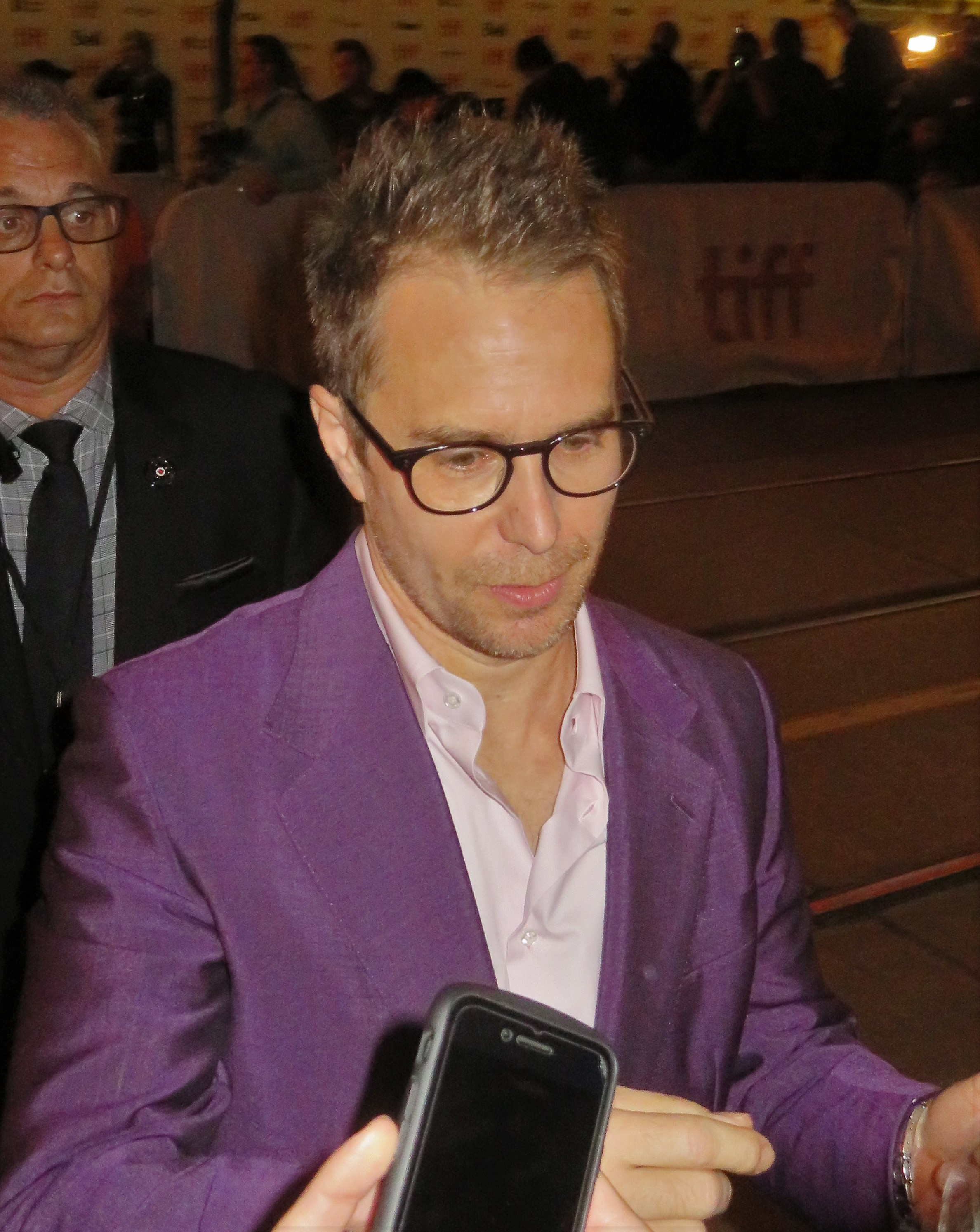 Sam Rockwell at the premiere of Jojo Rabbit, 2019 Toronto Film Festival